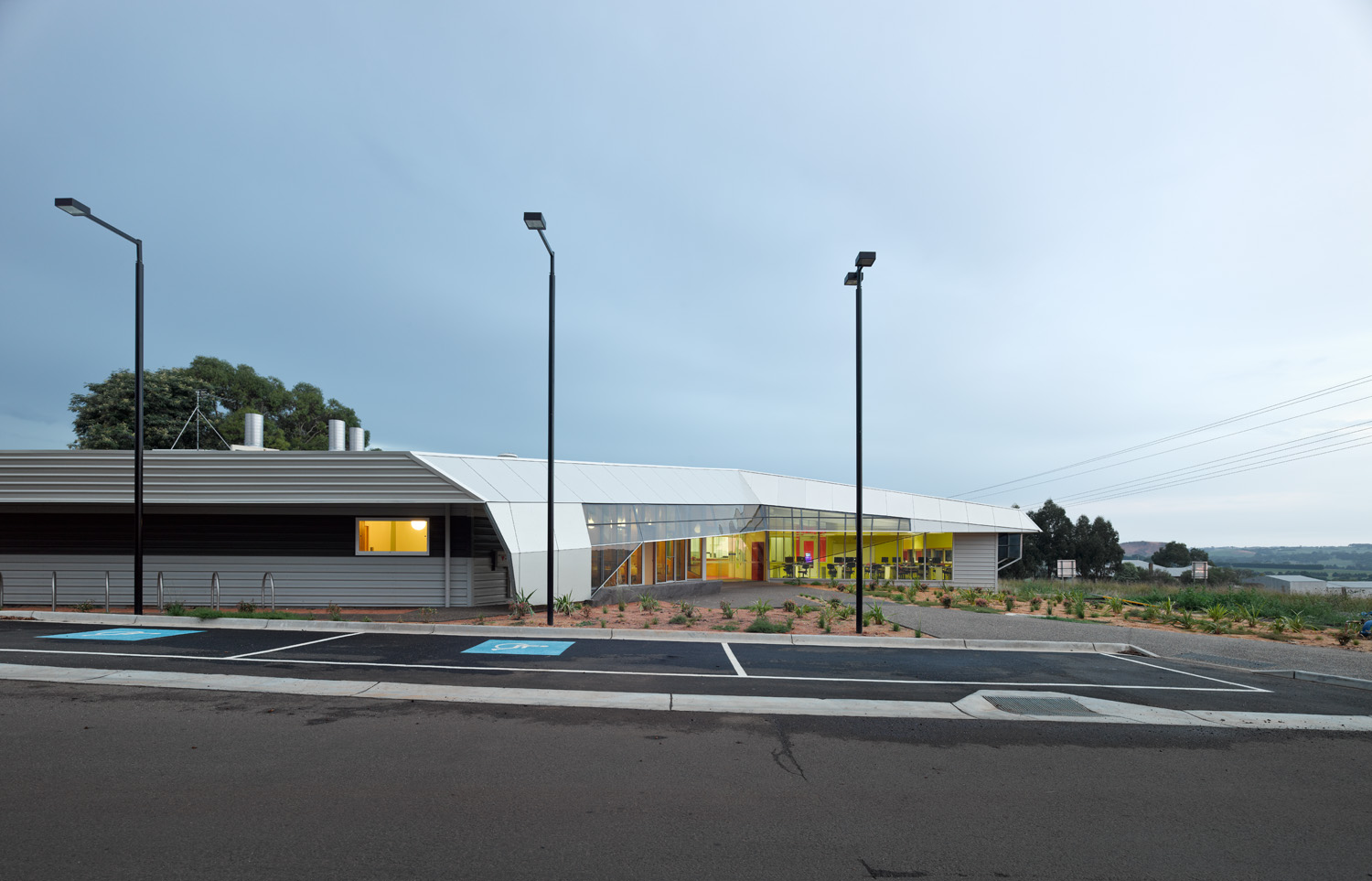 GippsTAFE Learning Centre